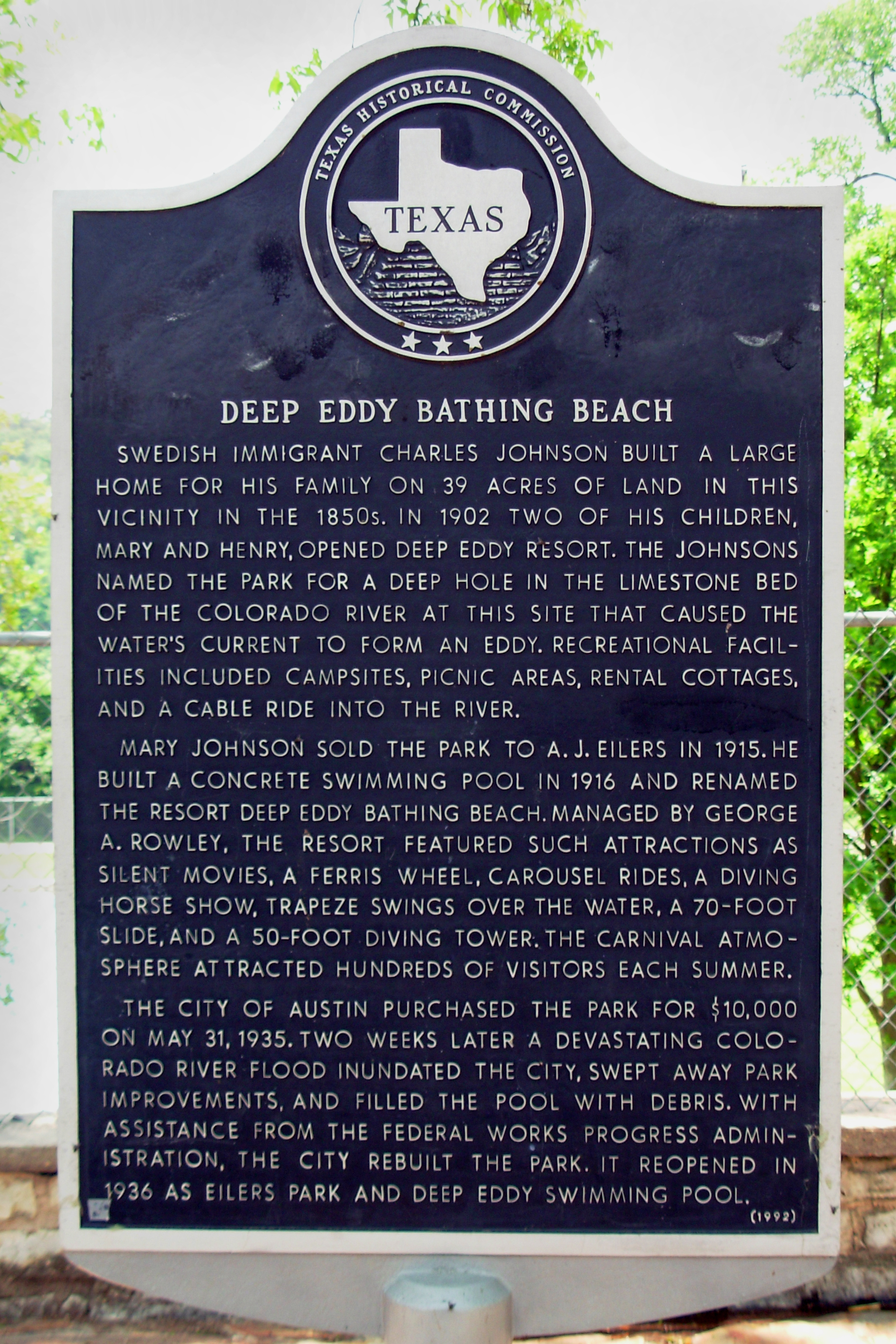 Historical Marker at Deep Eddy Pool, Austin Texas. Photo by Steve Hopson on April, 2006. More photos and information about photographer at Steve Hopson Photography.